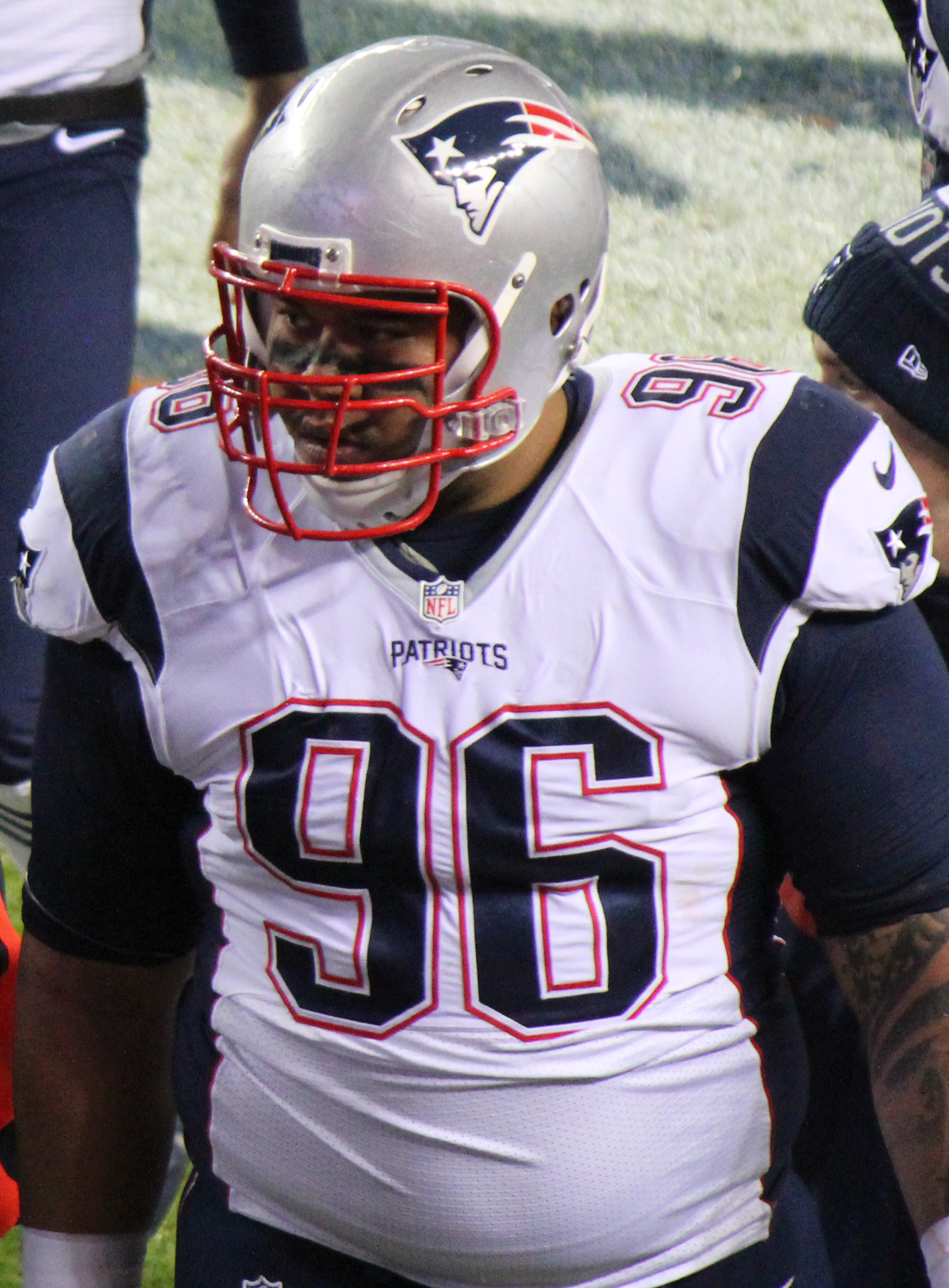 Sealver Siliga, a player on the National Football League.